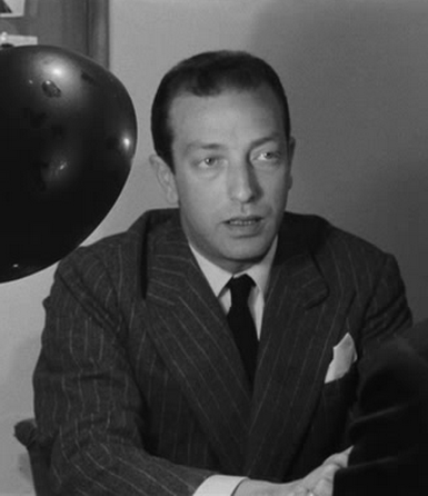 Franco Ressel in a scene of the film L'assassino